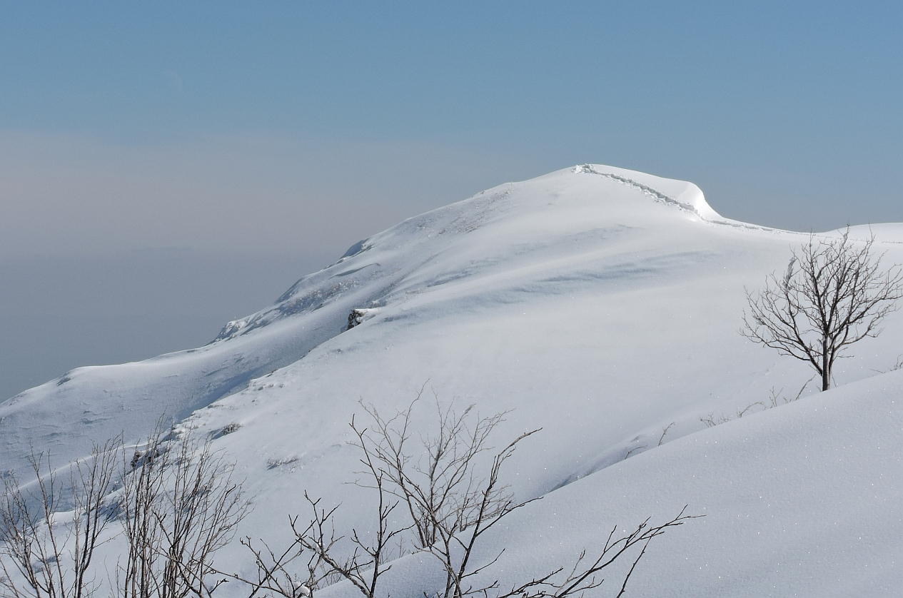 Beccas del Mezzodì (Cottian Alps, Italy)ː western view of the summit